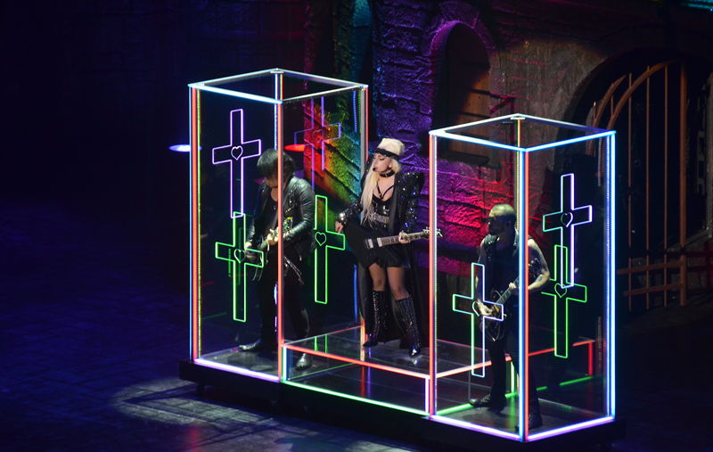 Lady Gaga performing "Electric Chapel" on The Born This way Ball Tour in Helsinki.